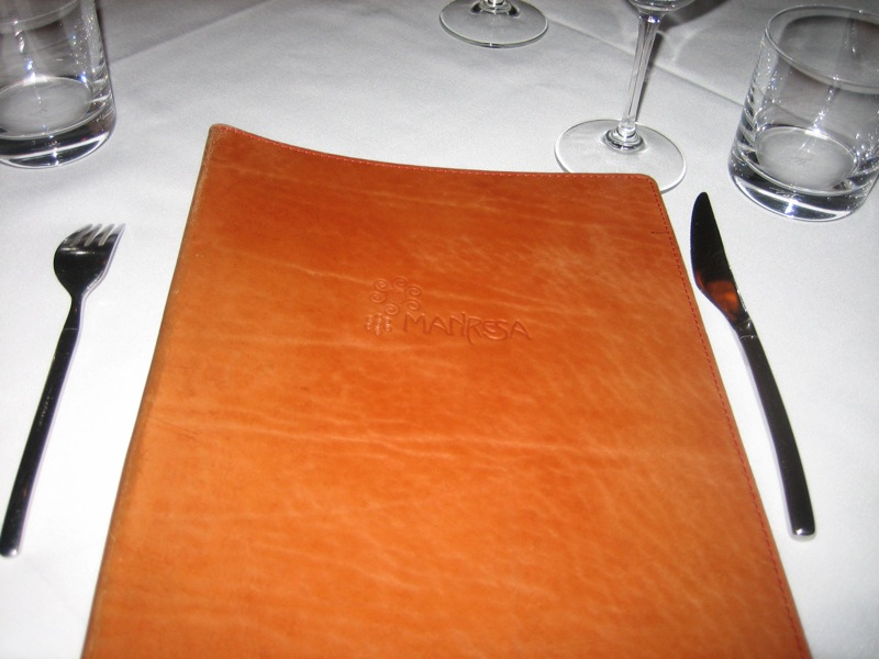 The exterior of the wine list for the Manresa restaurant in Los Gatos, California, United States. Photo taken with a Canon PowerShot SD400 digital camera.